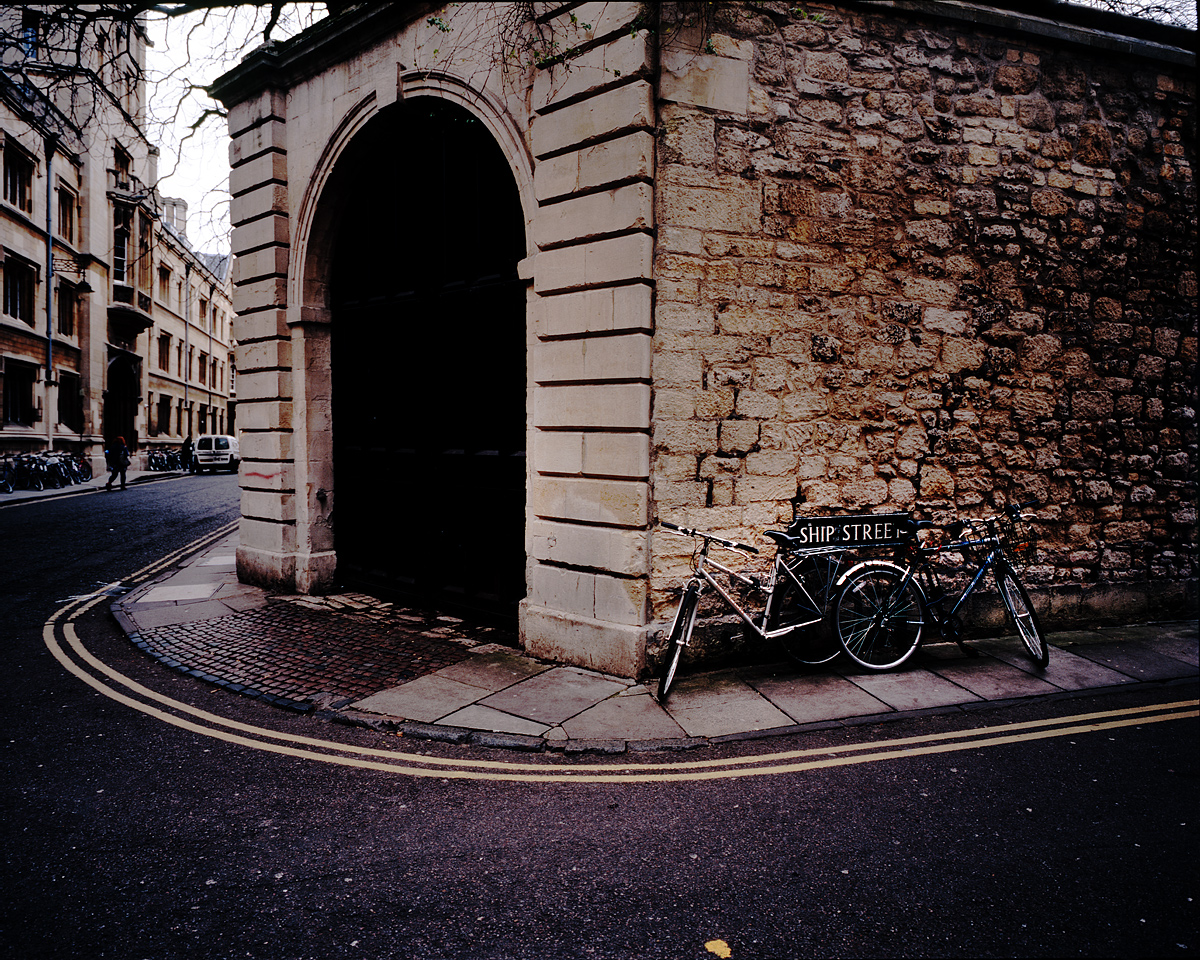 The Bath stone gateway to the Principal's garden at Jesus College, Oxford on the corner of Turl Street and Ship Street.